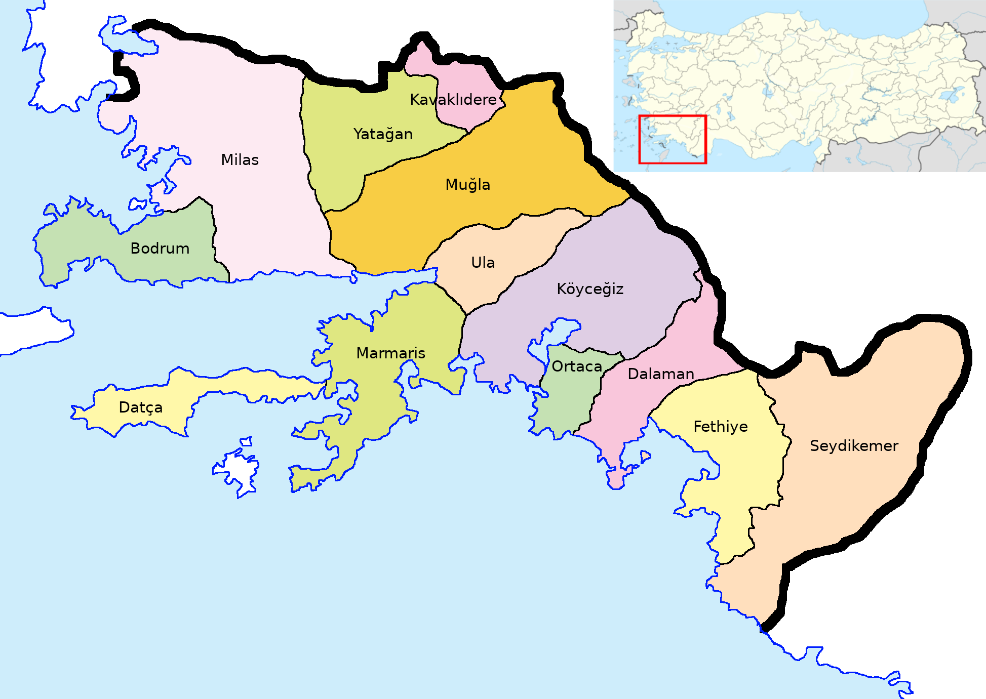 This is a district map of province Muğla in Turkey up to date (2018)